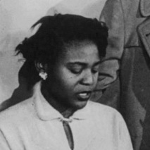 CREDIT: Roy Wilkins in press conference with Autherine Lucy and Thurgood Marshall, director and special counsel for NAACP Legal Defense and Education Fund]." 1956 March 2. Prints and Photographs Division of the Library of Congress.